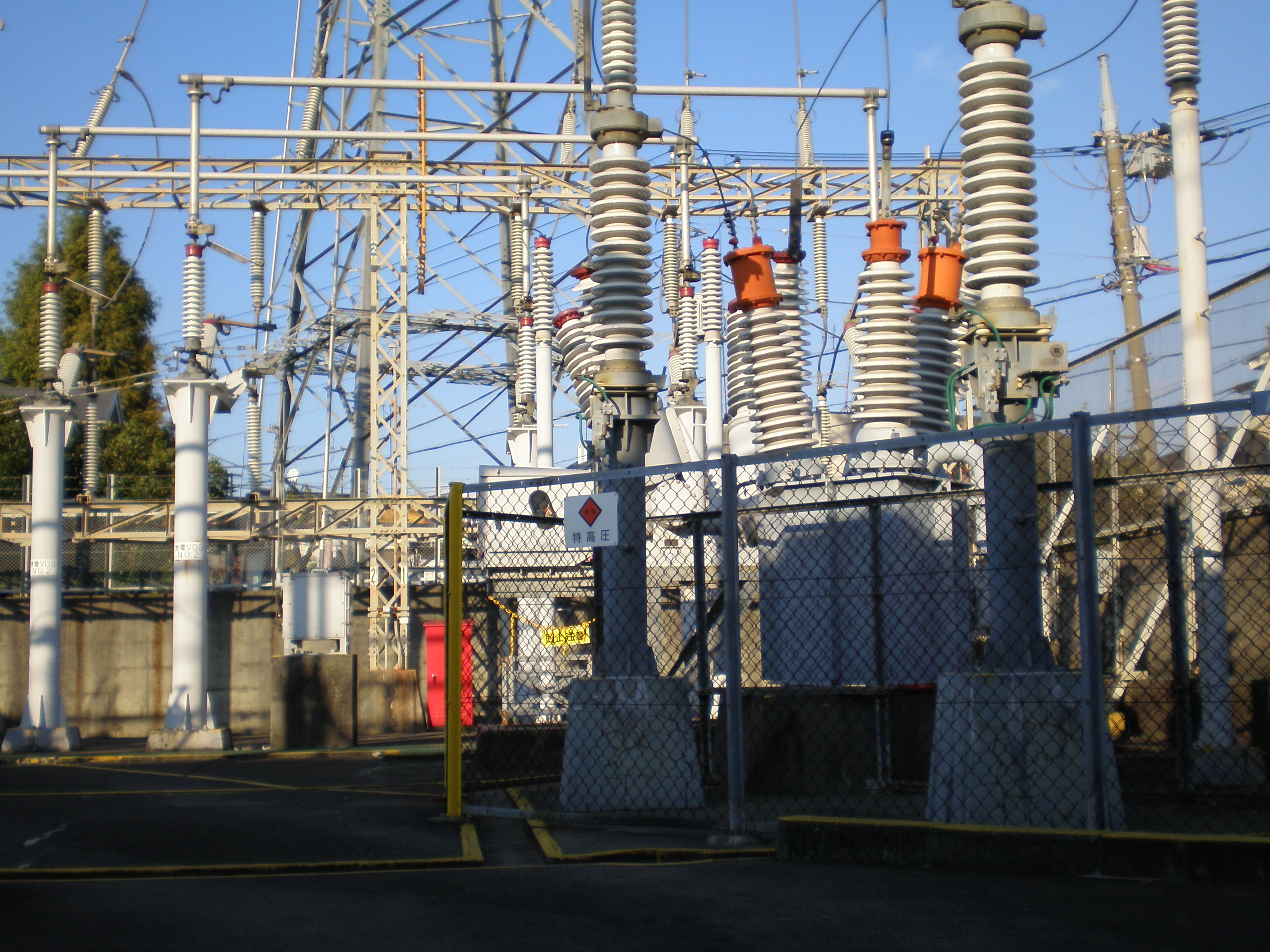 Kugayama Electrical Substation which converts AC into DC for Keio Inokashira Line.